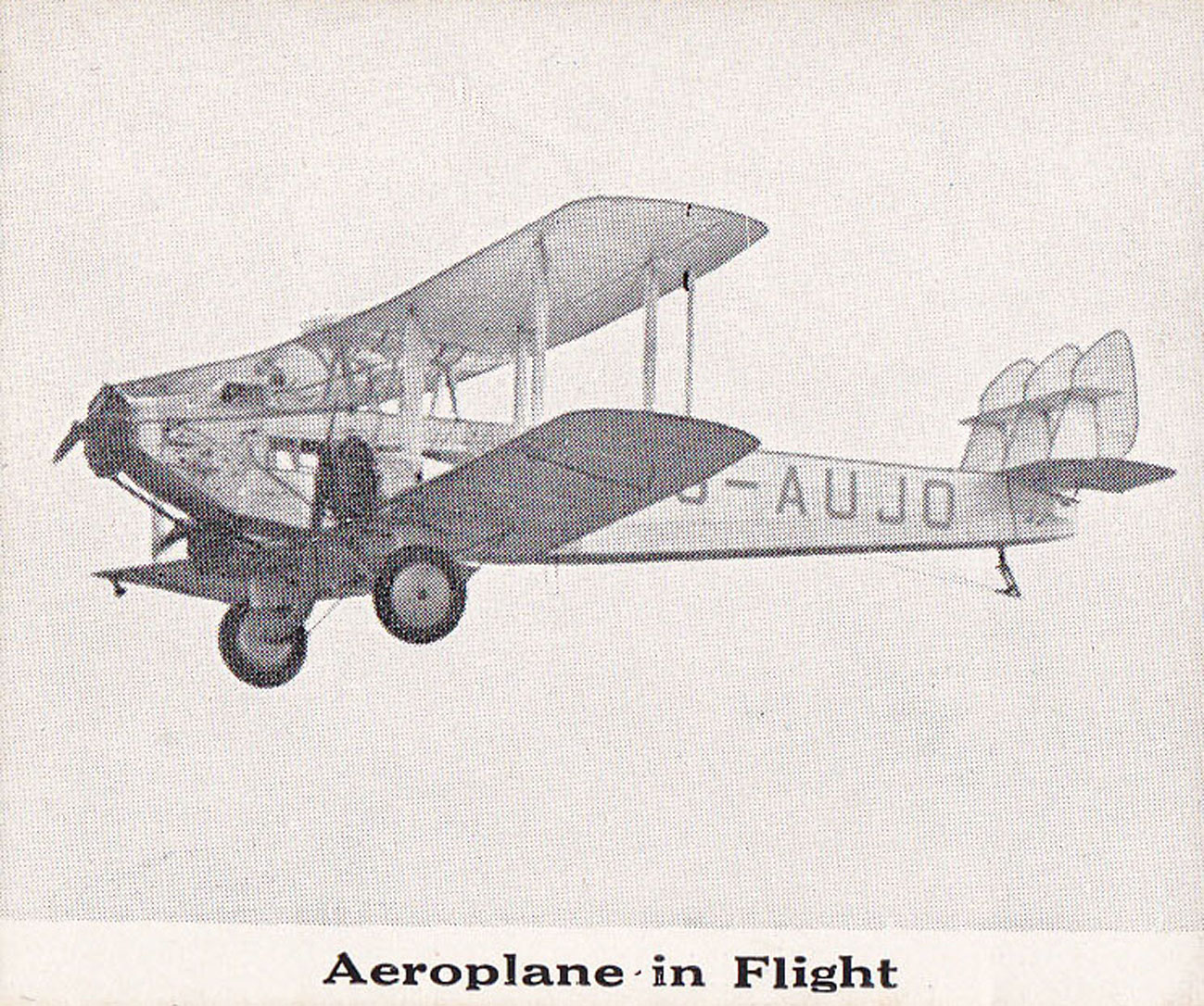 One of 6 small prints included in a souvenir pouch flown on first Perth to Adelaide airmail flight in 1929